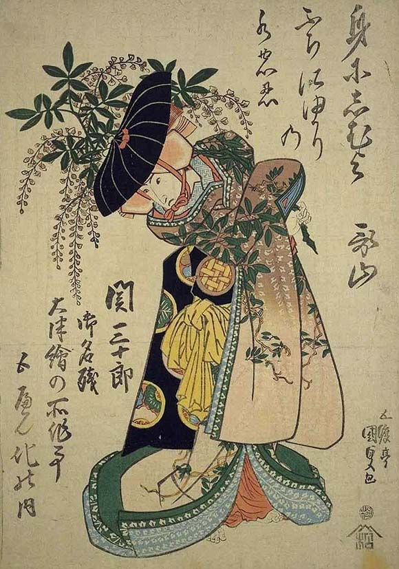 The actor Seki Sanjûrô II playing the role of the Wisteria Maiden in the hengemono "Kaesu Gaesu Onagori no Ôtsue", which was staged in the 9th lunar month of 1826 at the Nakamuraza (print made by Utagawa Kunisada I)